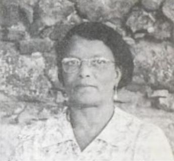 USVI Territorial Senator, Bertha C. Boshculte, 1963